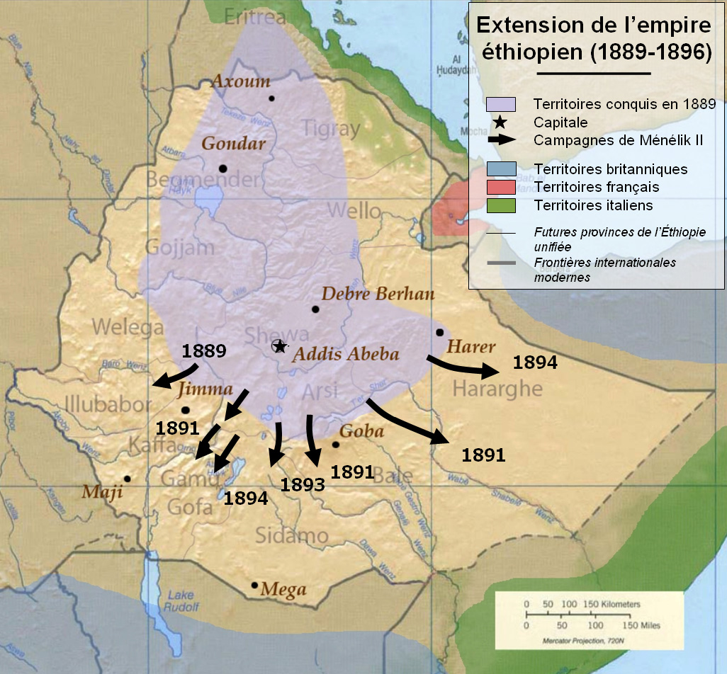 Menelik's campaigns (1879-1889). This is part of a set of three map : Menelik's campaigns (1879-1889) Menelik's campaigns (1889-1896) Menelik's campaigns (1897-1904)